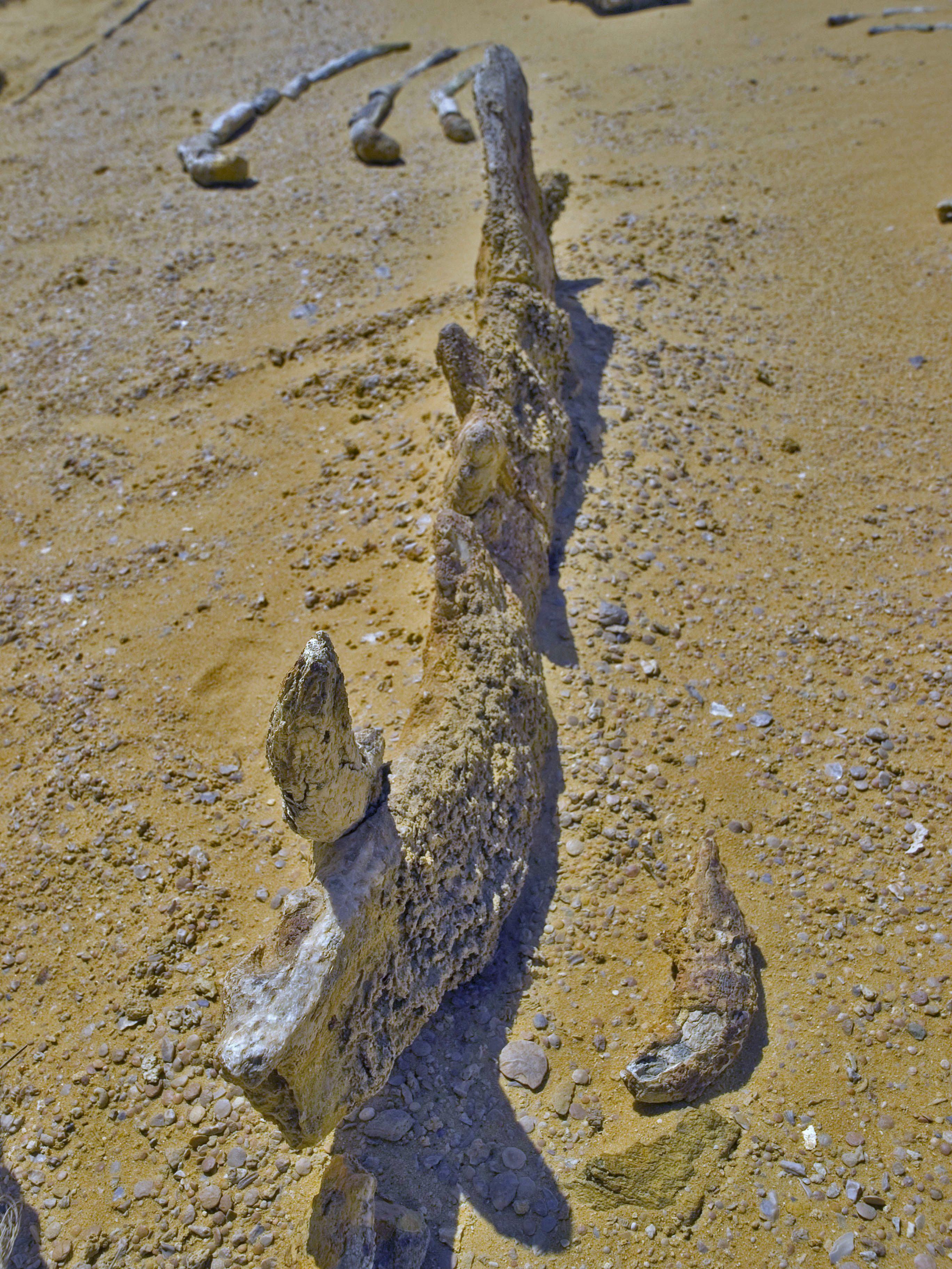 Wadi Al-Hitan is a very important fossil site that firmly establishes the fossil record of whale evolution from land mammals, one of Darwin's major assertions in The Origin of Species. The wadi hosts skeletons of families of archaic whales in their original geological and geographic setting of the shallow nutrient-rich bay of an early sea of some 30-40 million years ago, in what is now central Egypt. There is no other place in the world yielding archaic whale fossils of such quality in such abundance and concentration -- over 400 cetacian skeletons have been discovered, the most important finds coming between 1985-1995. Many of the sirenians and cetaceans are preserved as virtually complete articulated skeletons which, uniquely, preserve reduced hind limbs, making them intermediate between earlier land mammals and later modern whales. In addition to the whale fossils, numerous other fossils of plant and animal life provide a rich picture of the ecology of the Tethyan Ocean during Eocene time, enabling interpretation of how animals then lived and how they were related to each other. These fossils are the subject of continuing study and are of iconic value for the study of evolutionary transition, and make the site vitally important as a niche in Earth's natural history.